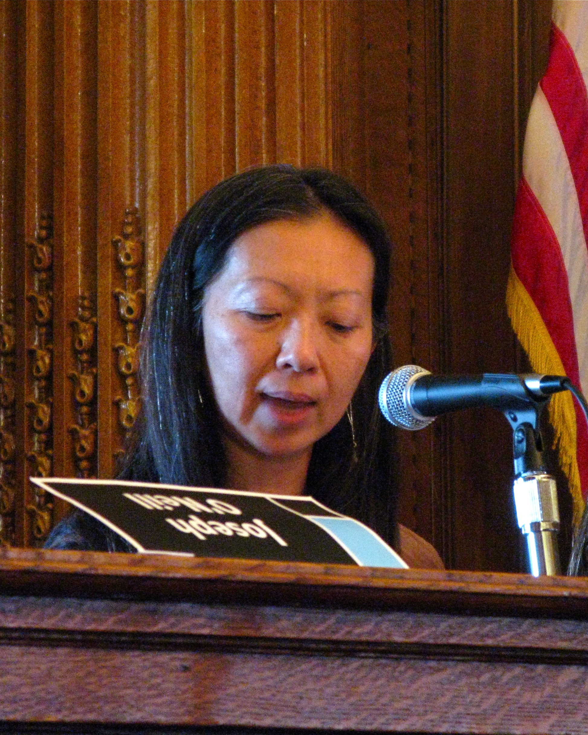 Fae Myenne Ng Brooklyn Book Festival Borough Hall